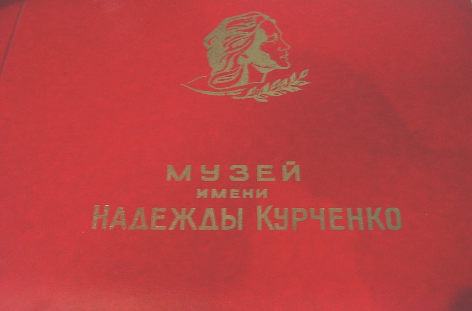 Надежда Курченко